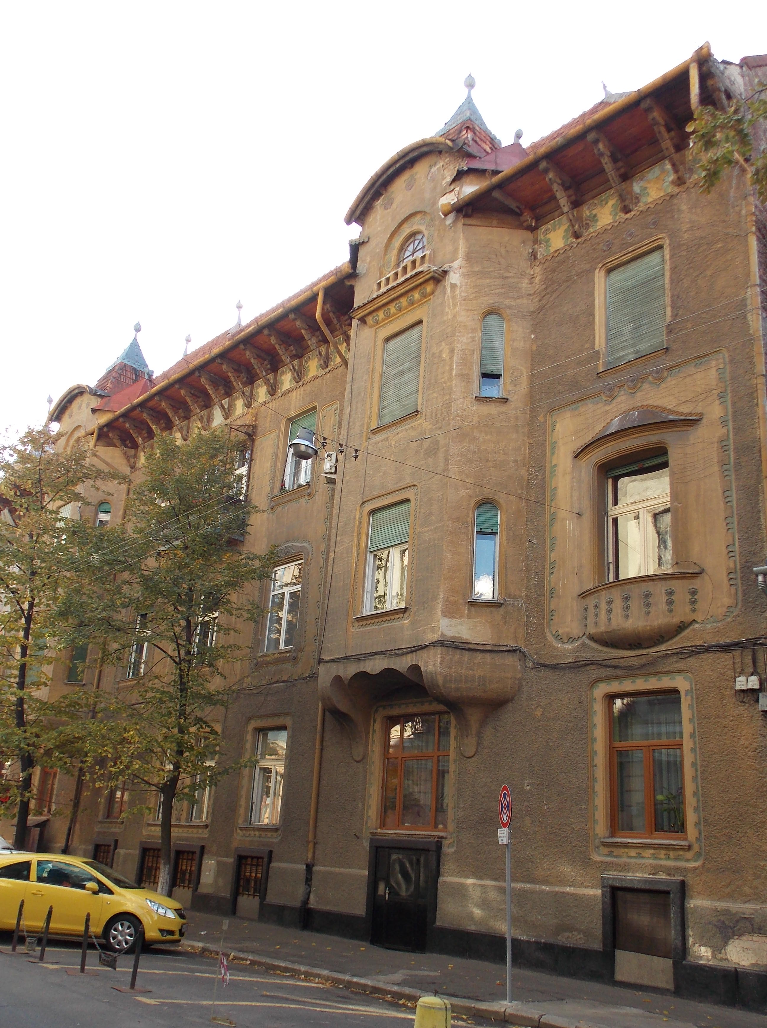 Stern Palace - Oradea